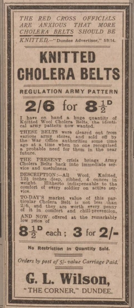 Advertisement for a cholera belt in a 1914 newspaper